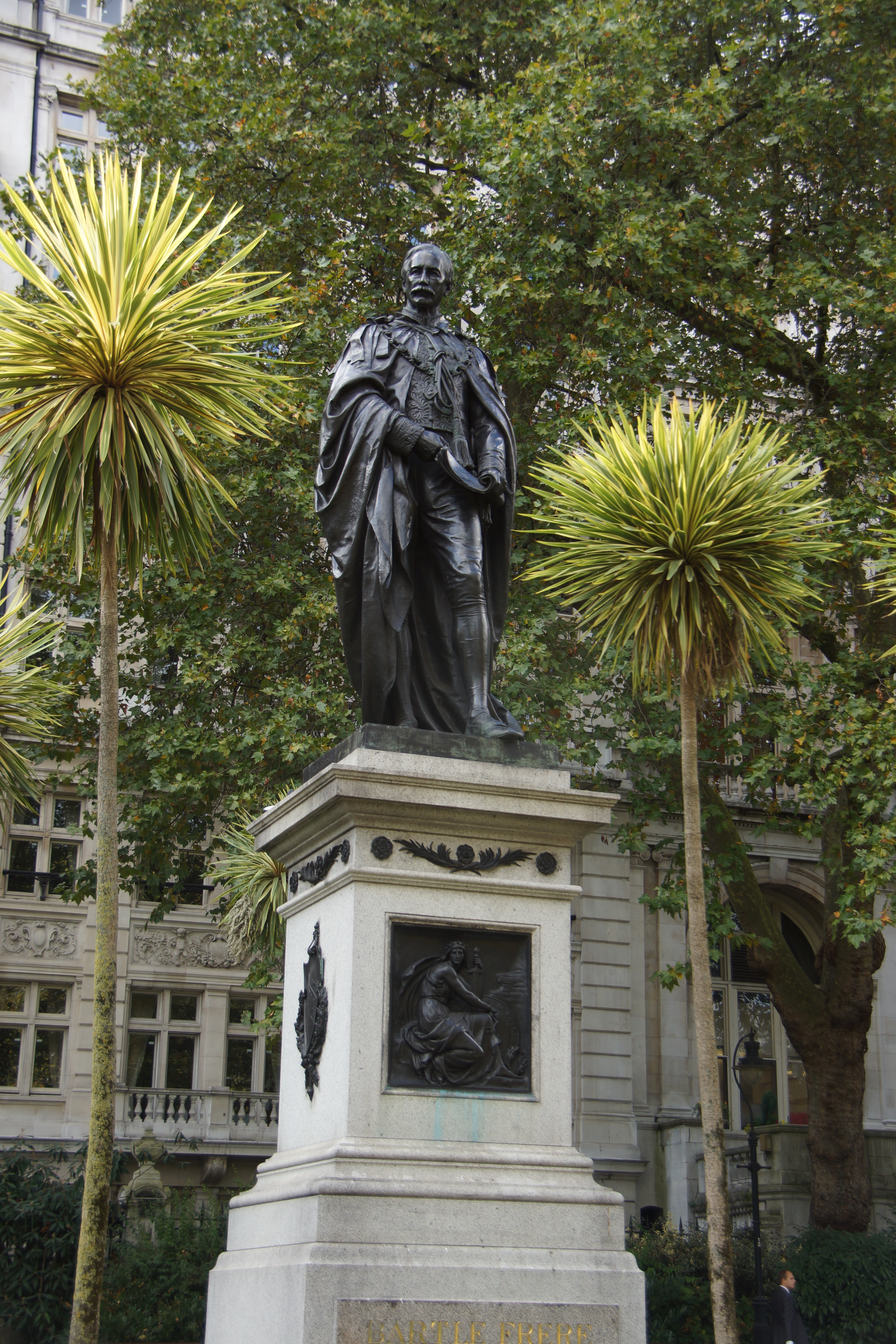 Statue of Sir Henry Bartle Edward Frere, 1st Baronet in the Victoria Embankment gardens, London